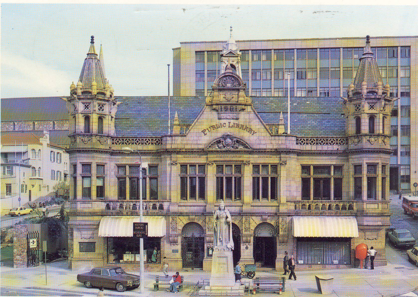 Public Library Port Elizabeth